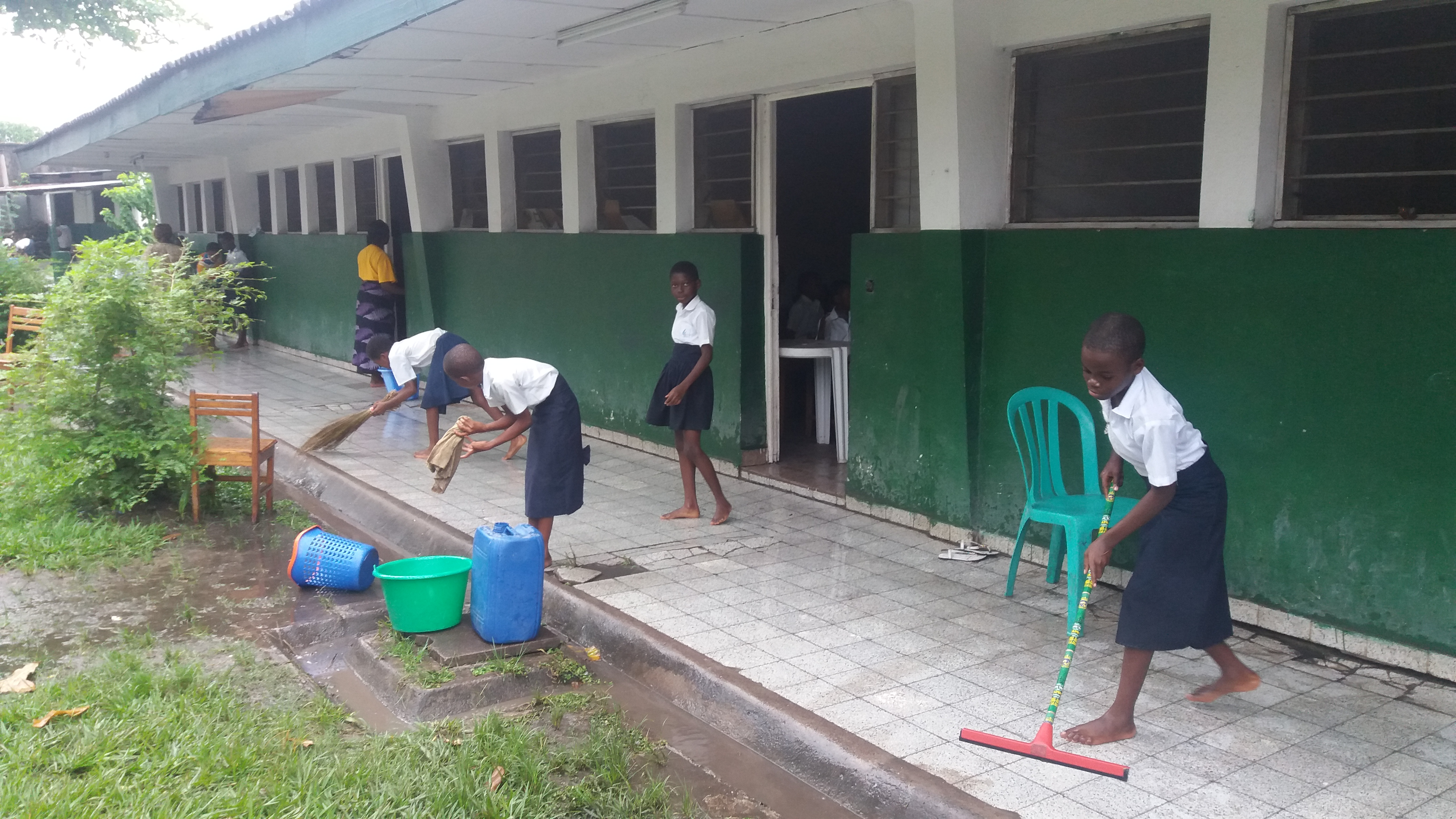 children cleaning their classrooms at Kinshasa This is an image of "African people at work" from Democratic Republic of the Congo